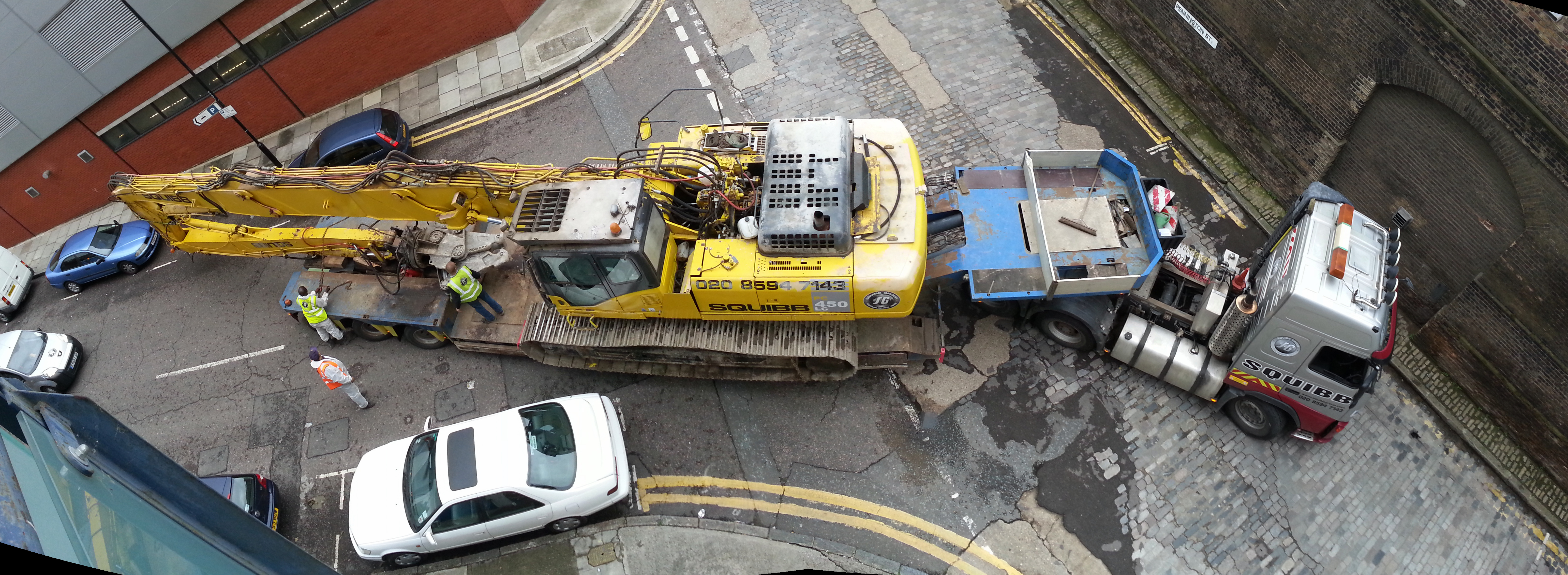 Hydraulic destruction engine on a flatbed truck.